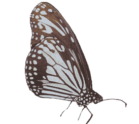 Parantica aglea digital picture made by self (L. Shyamal)